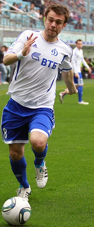 Zvjezdan Misimovic